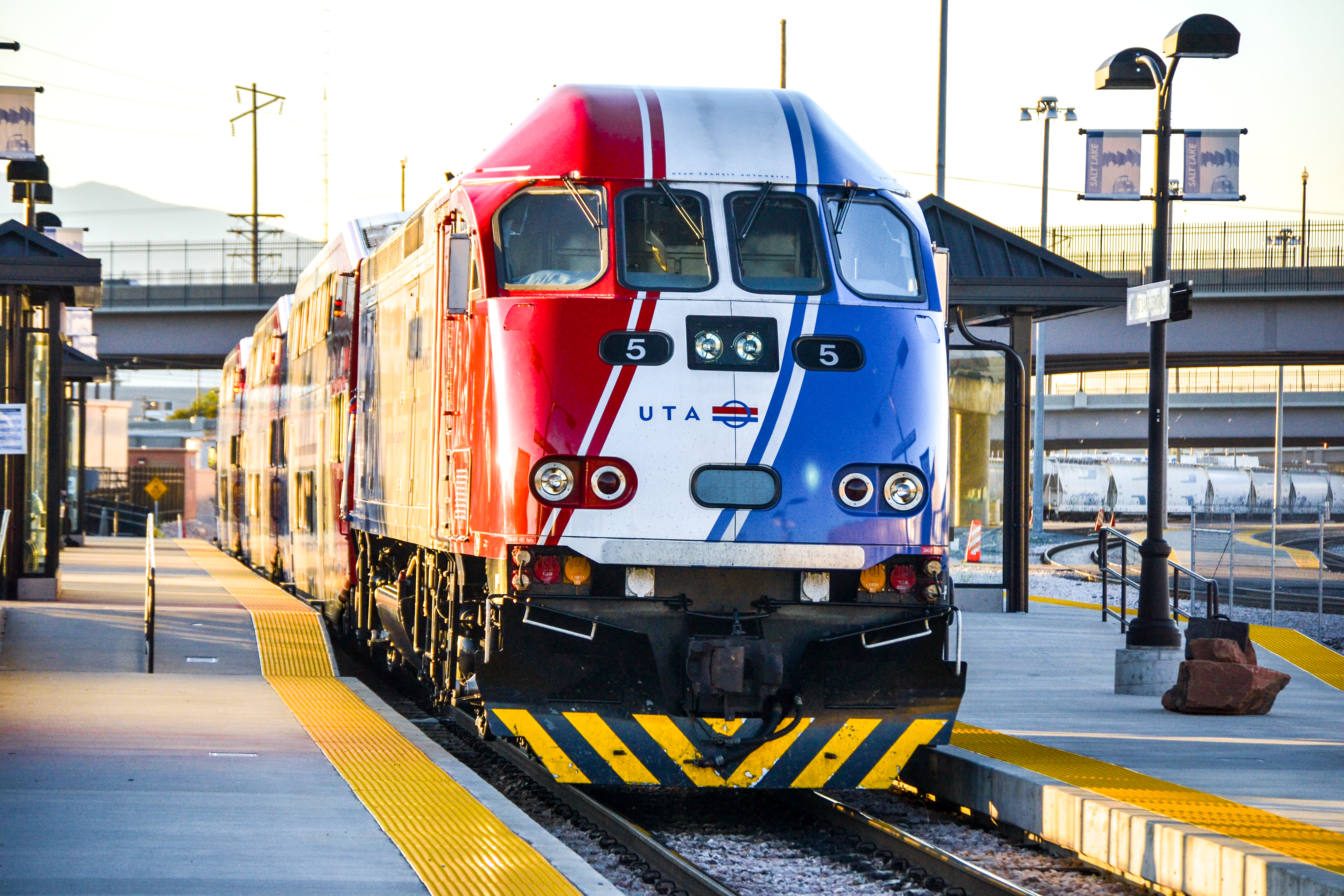 A FrontRunner train sitting at its southern terminus at Central Station in Salt Lake City.